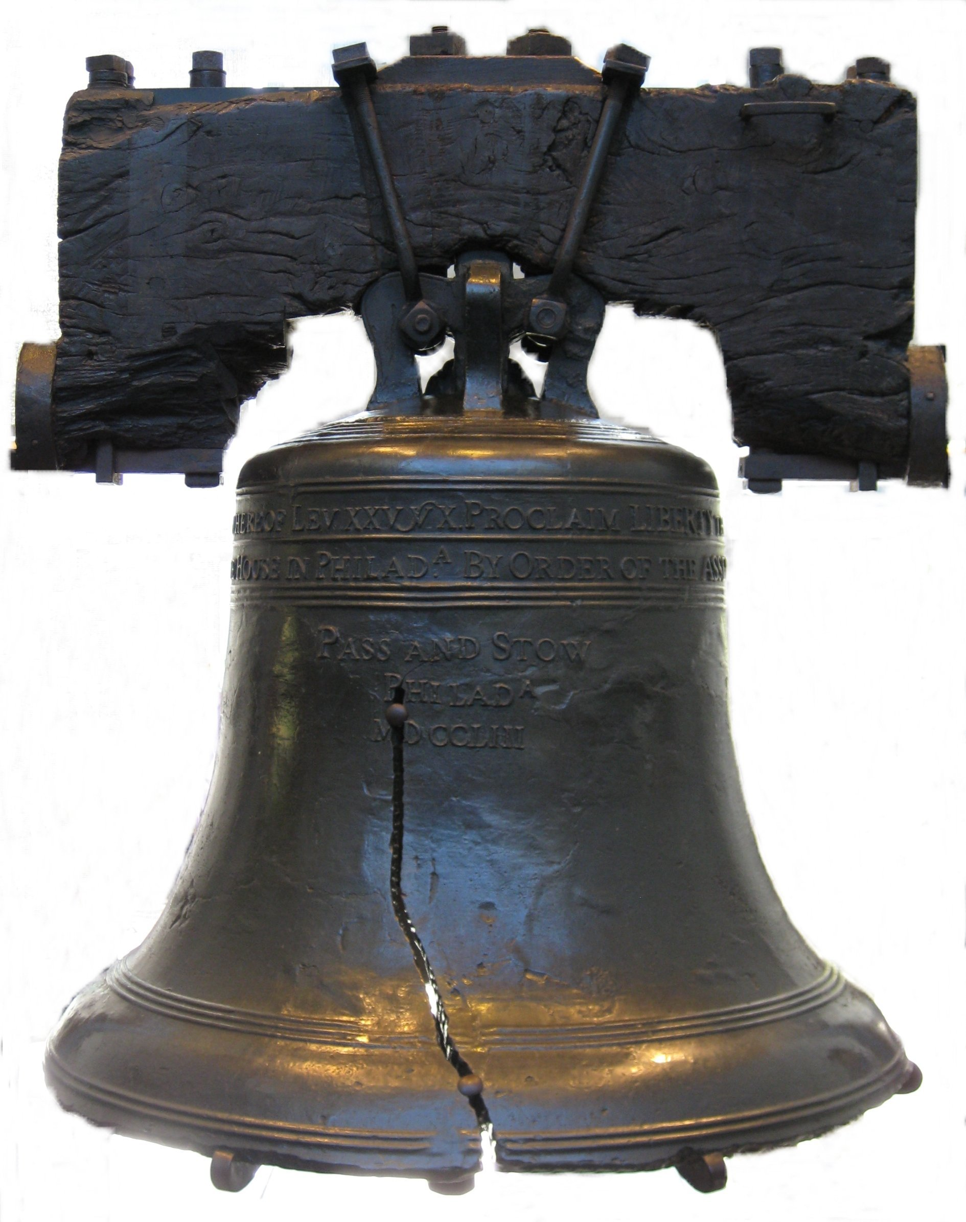 Liberty Bell at Independence National Historic Park. Pennsylvania, Philadelphia.